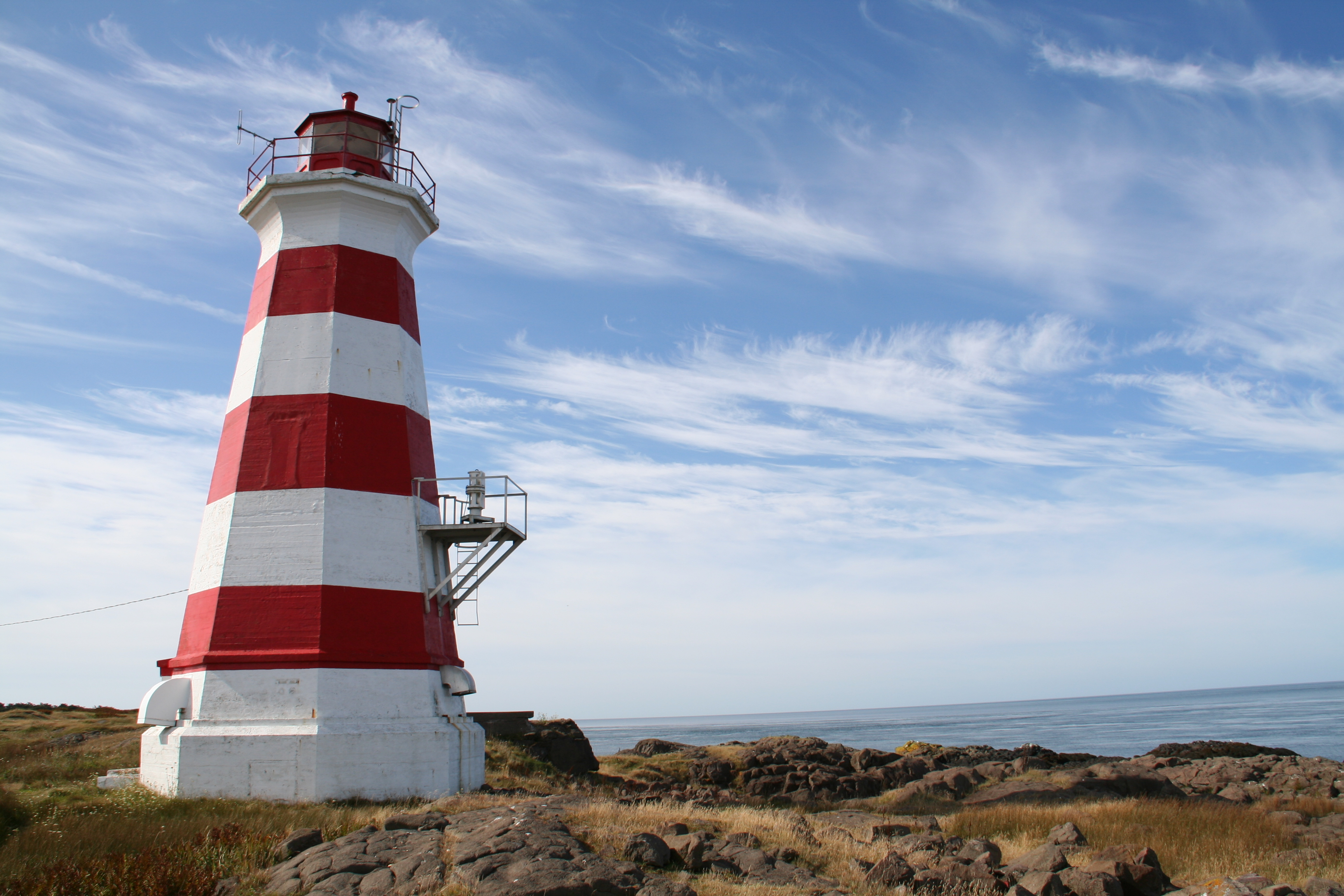 Lighthouse on Brier Island, Nova Scotia, Canada.